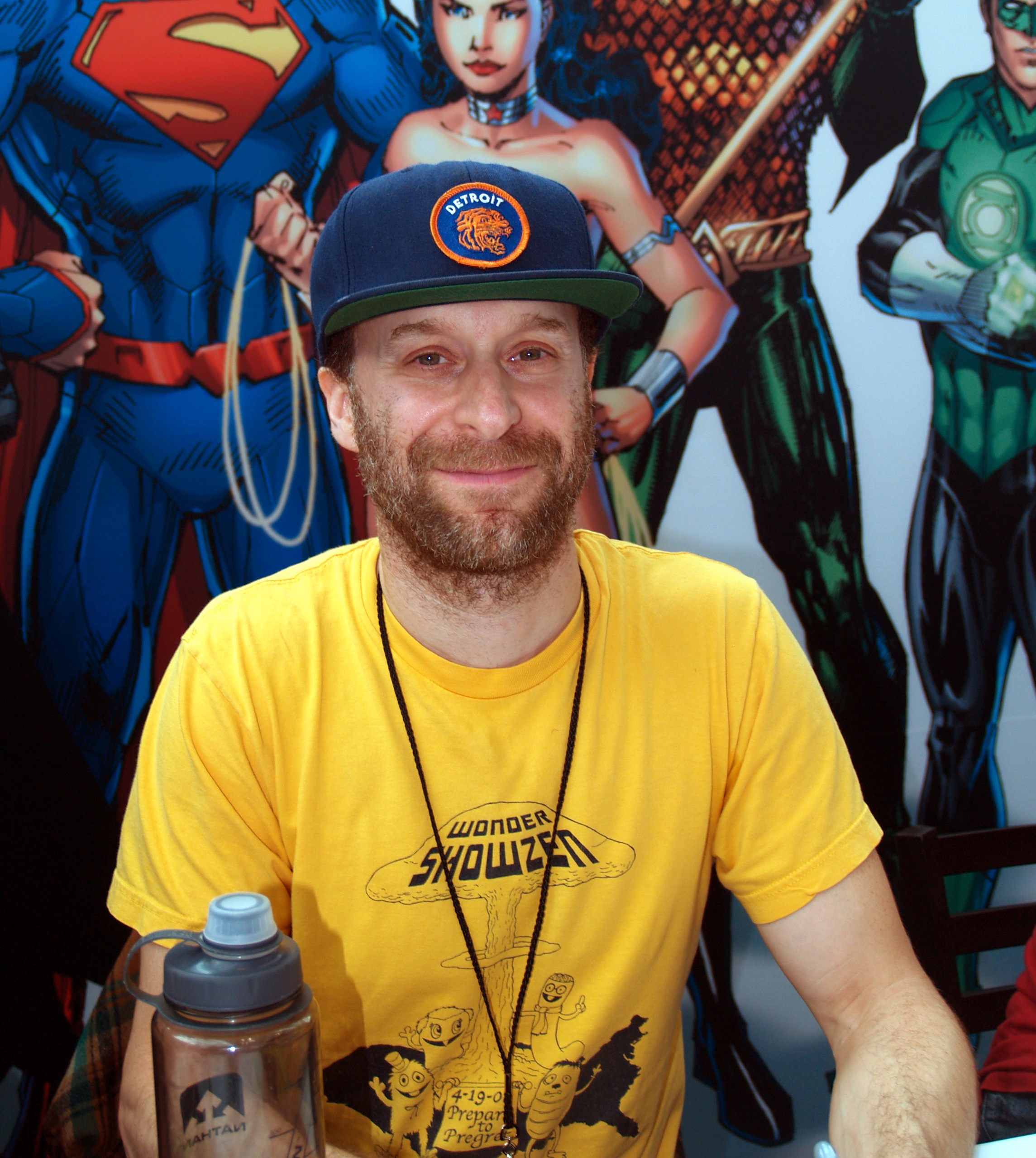 Actor/comedian/writer Jon Glaser at the DC Comics booth signing copies of Neon Joe, Werewolf Hunter, on Friday, October 9, 2015 at the Jacob K. Javits Convention Center in Manhattan, Day 2 of the 2015 New York Comic Con.